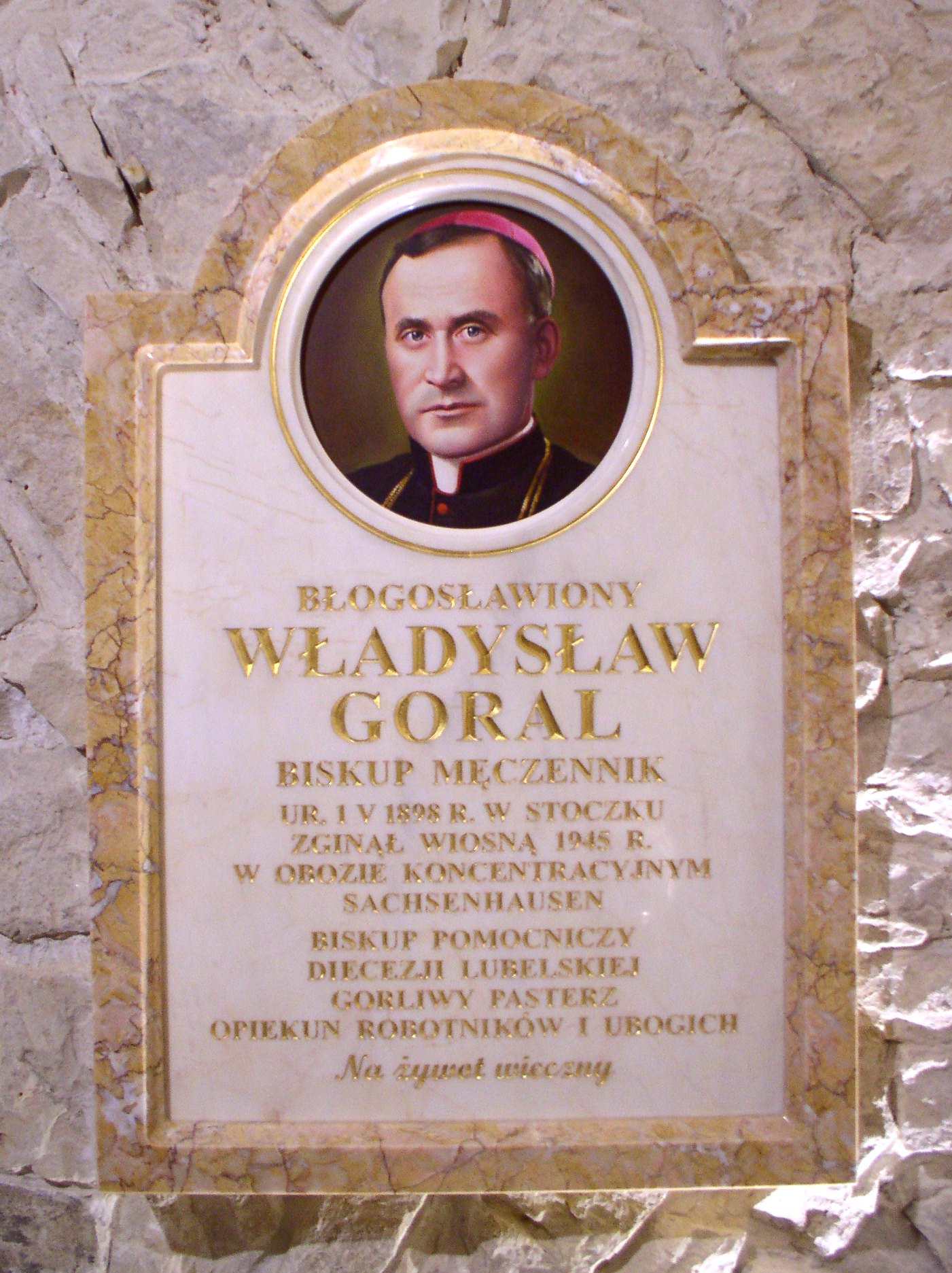 Tablica autorstwa Zbigniewa Kotyłły - Krypta biskupow archikatedra lubelska 2012